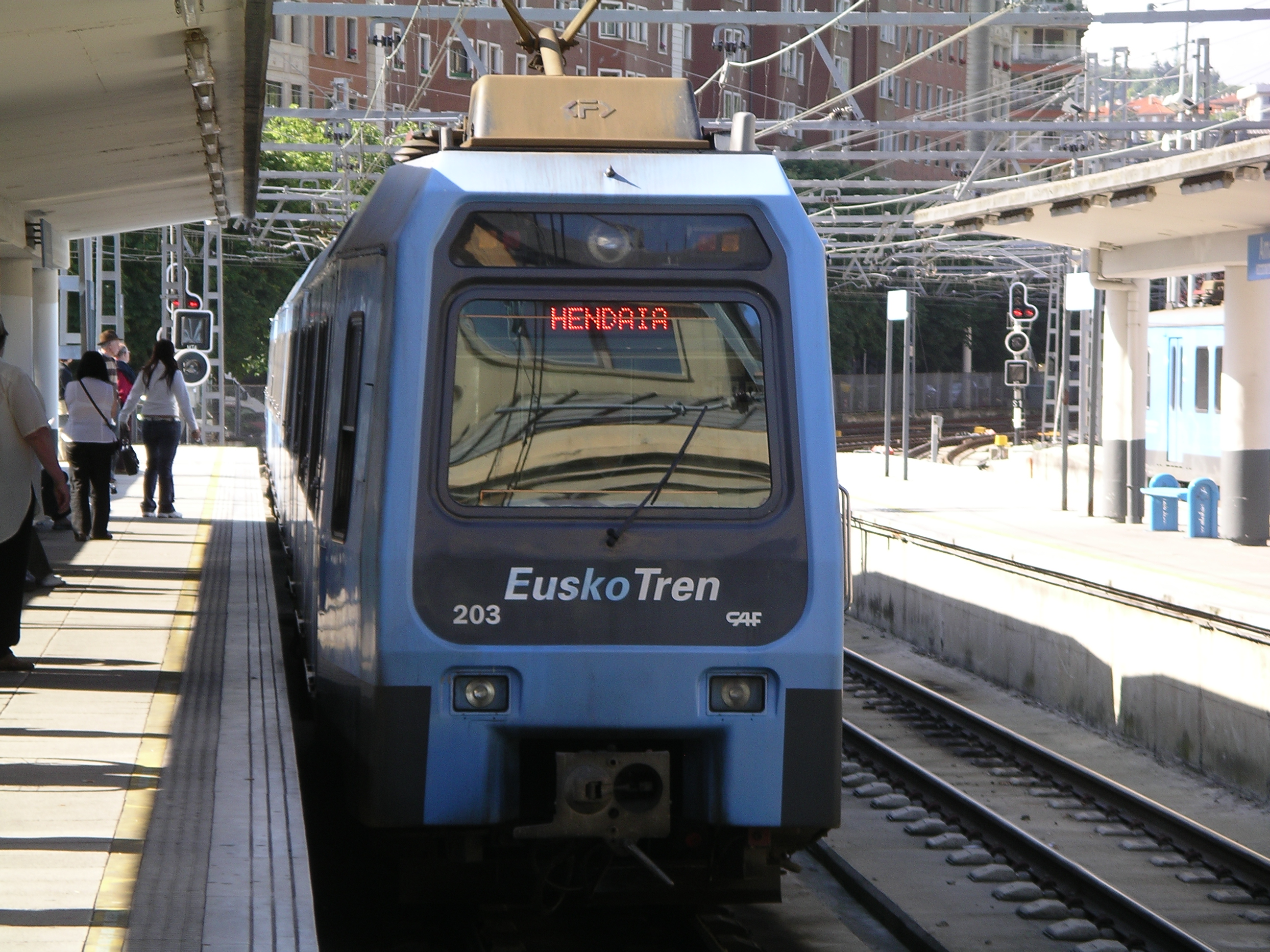 Railway station San Sebastian Eusko Tren in the Basque Country, Spain